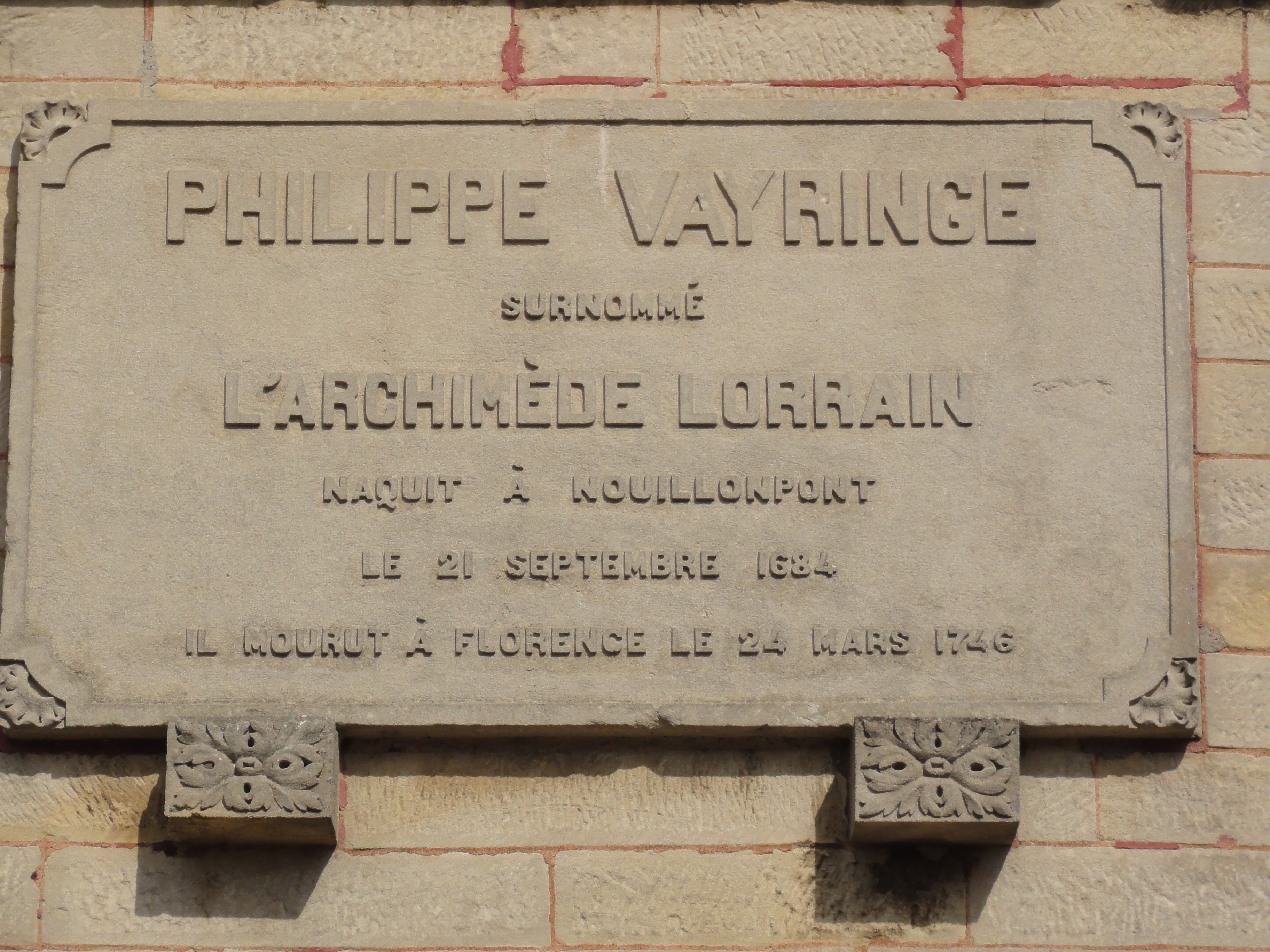 Nouillonpont (Meuse) plaque Philippe Vayringe